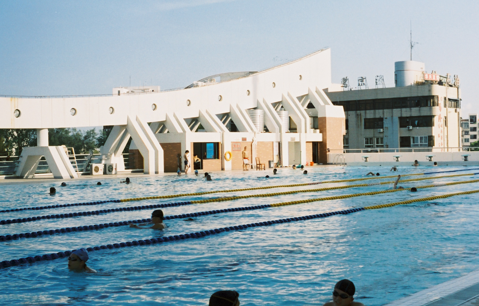 the swimming pool of Xiamen University, June 2012